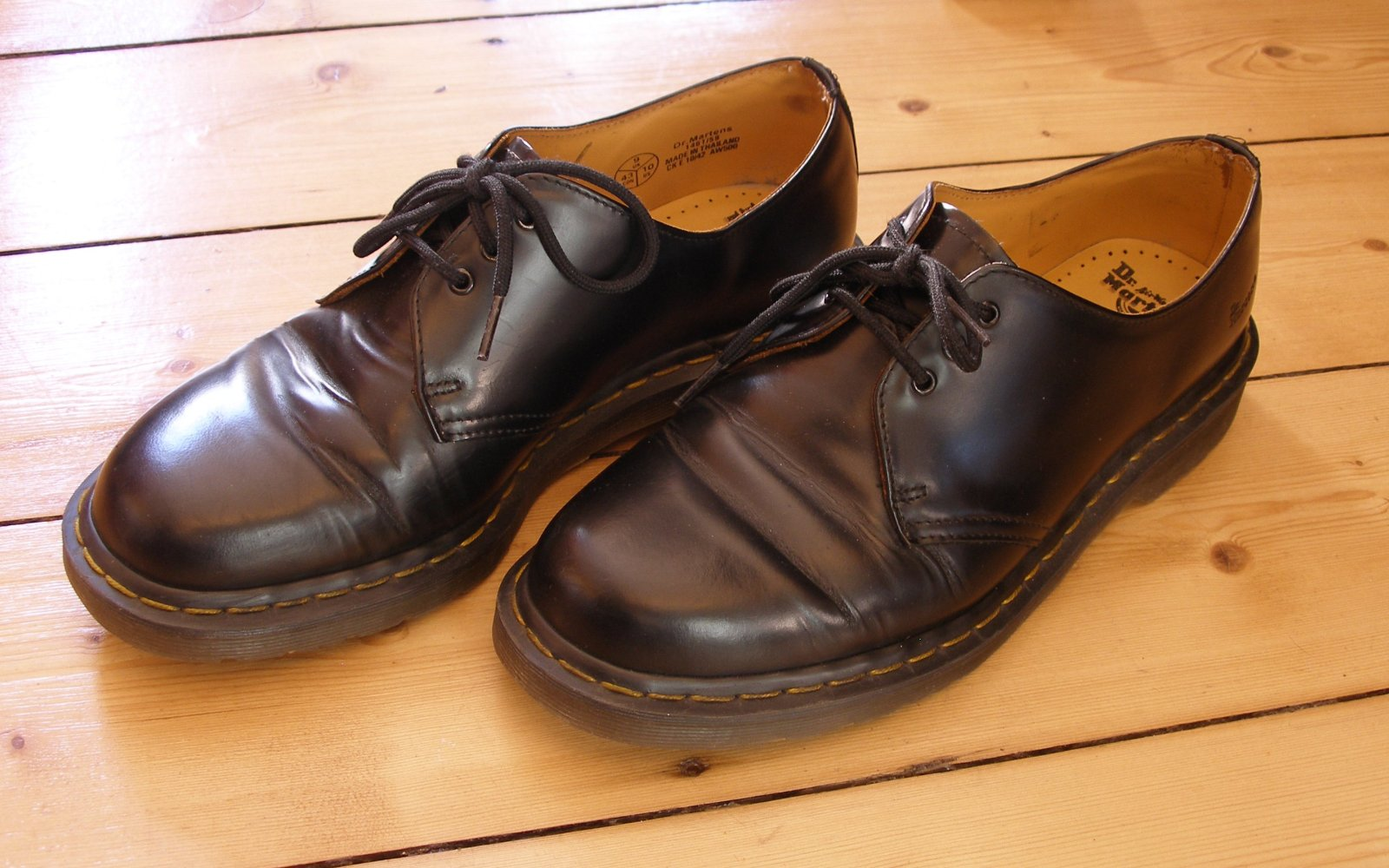 DocMartens-Halbschuh/low shoe, post-2003